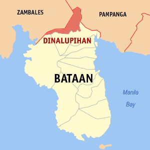 Map of Bataan showing the location of Dinalupihan